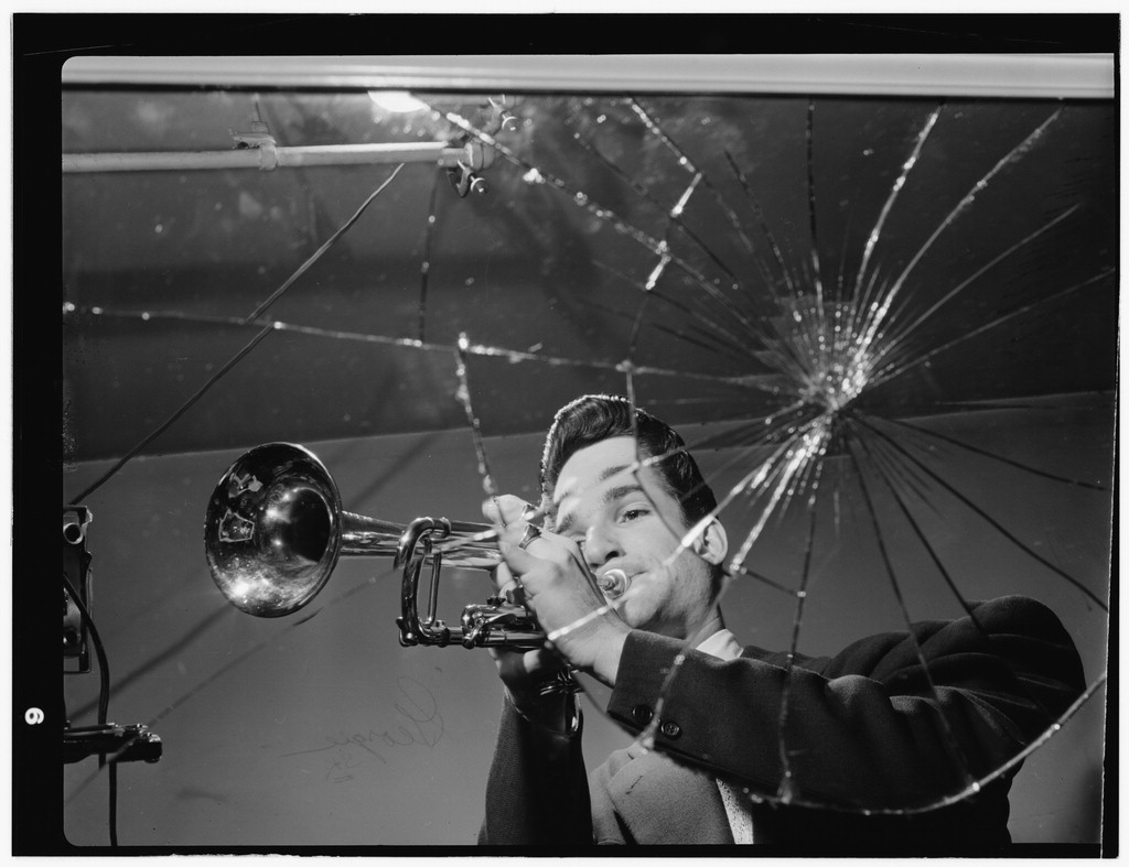 Conte Candoli. Photography by William P. Gottlieb (between 1946 and 1948)